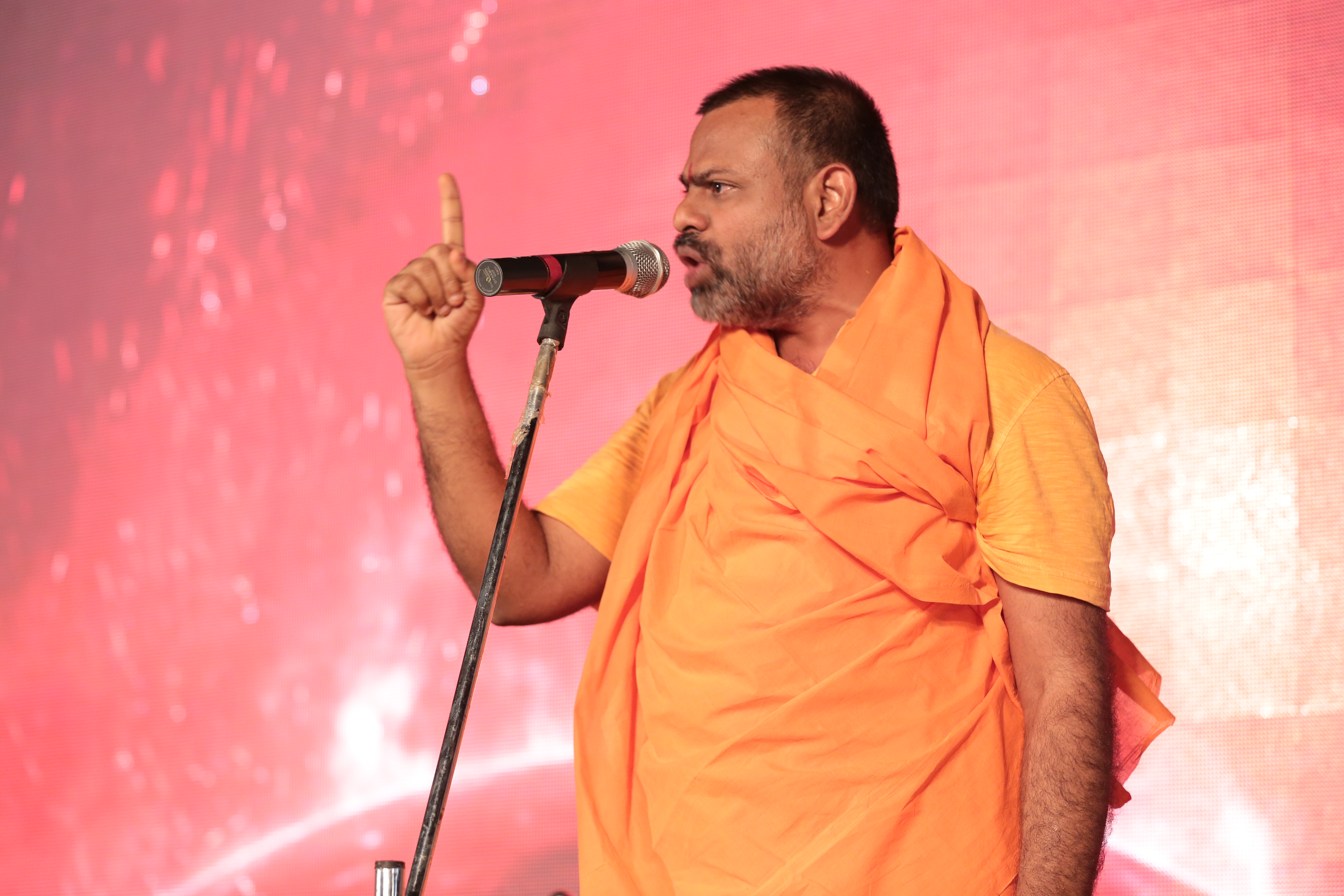 Paripoornananda Swami Speaking In A Public Meeting At Adilabad In Telangana at May 2018